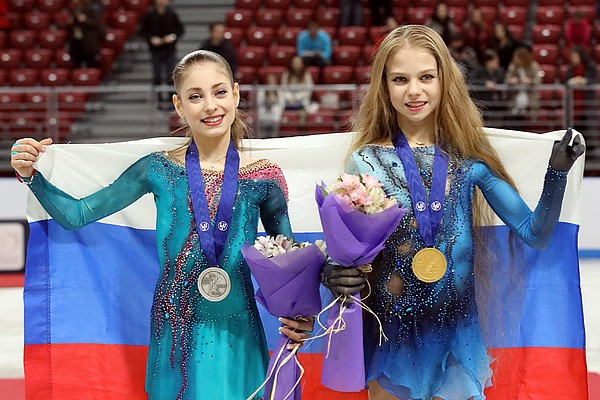 Photos – Junior World Championships 2018 – Ladies (Medalists)